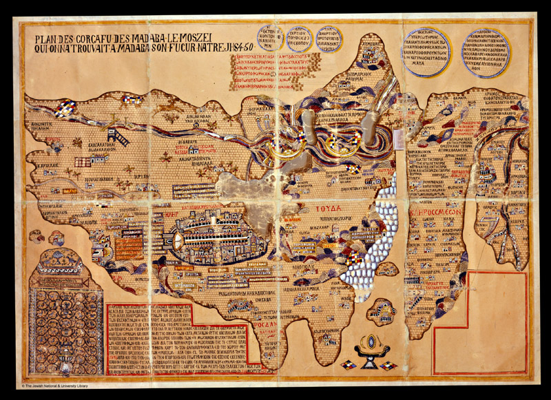 The Madaba Mosaic Map-A mosaic covering part of the floor of a late sixth-century Byzantine Church in Madaba (today in Jordan) representing the Holy Land and the surrounding countries.